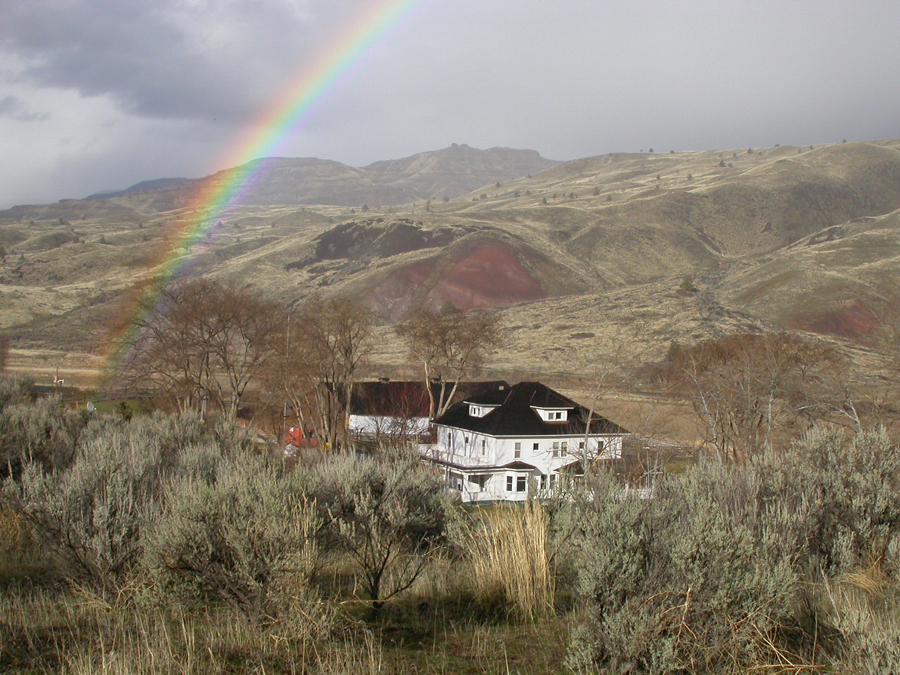 North facing view of the historic James Cant Ranch; now a National Park Service cultural history museum in the John Day Fossil Beds National Monument; near Dayville, Oregon